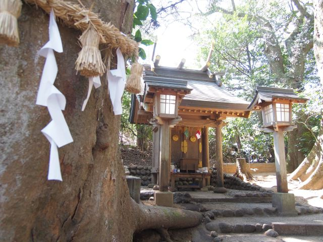 Takachiho, Miyazaki Pref., Japan